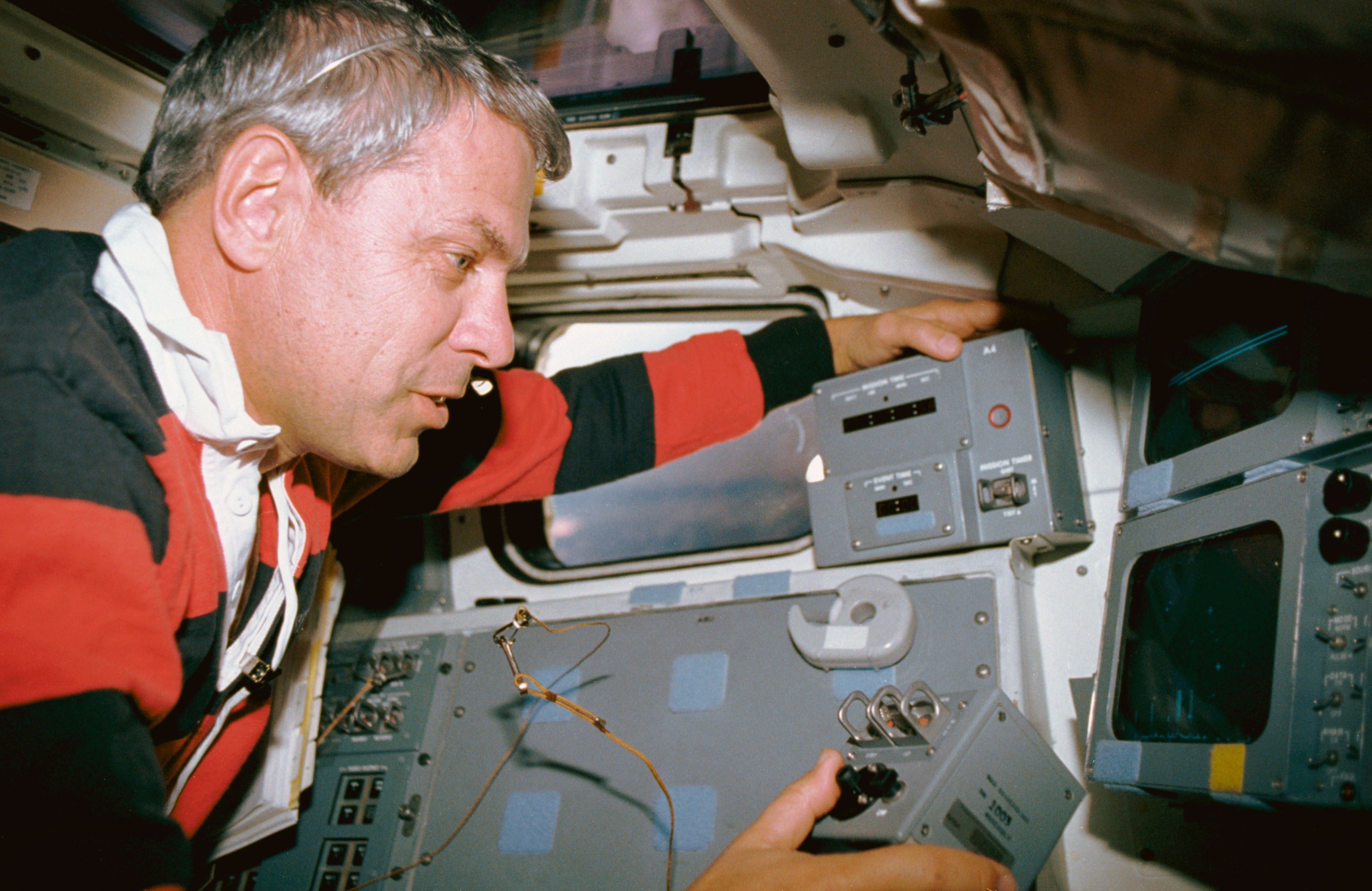 Mission Specialist Robert Parker manually points instruments on ASTRO-1 on Columbia's aft flight deck, STS-35.